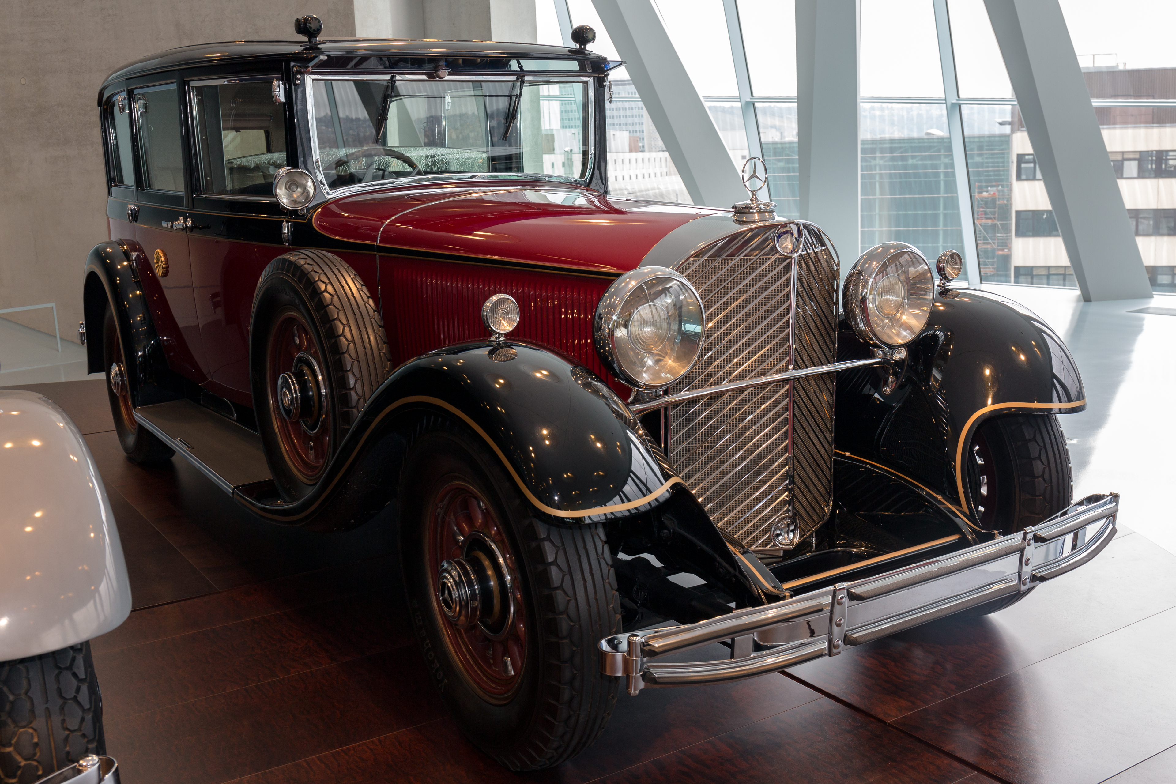 1935 Mercedes-Benz 770 Pullman-Limousine of the Emperor Hirohito of Japan